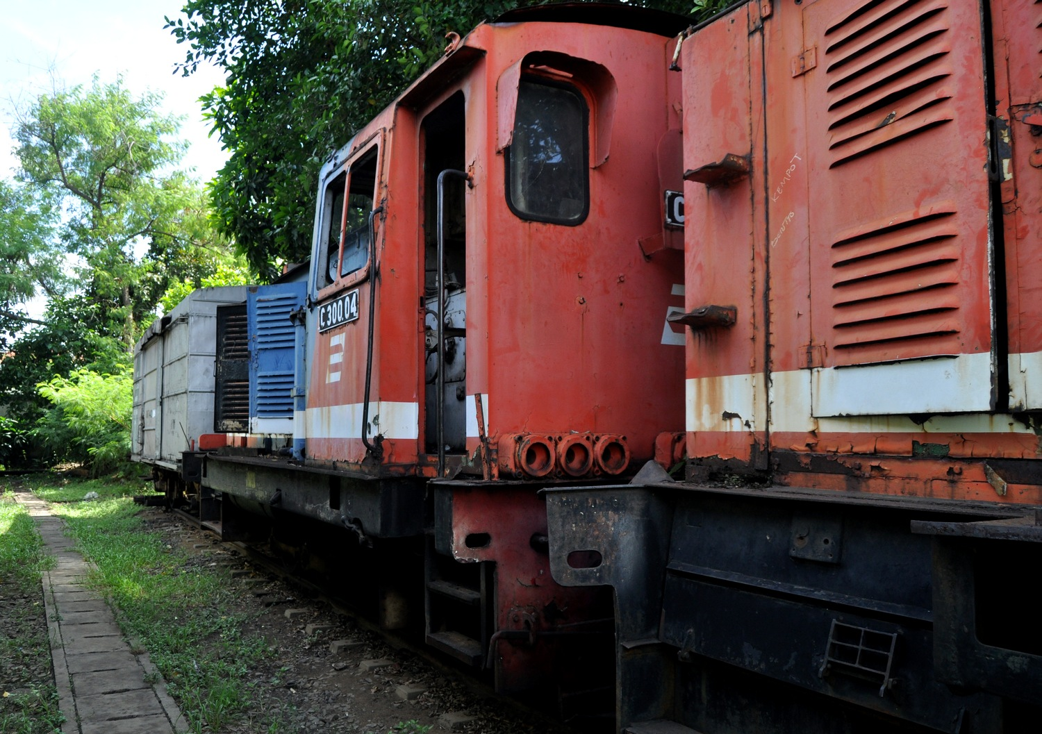 C300-04 diesel-hydraulic locomotive, rest in backyard of Tanahabang Station workshop